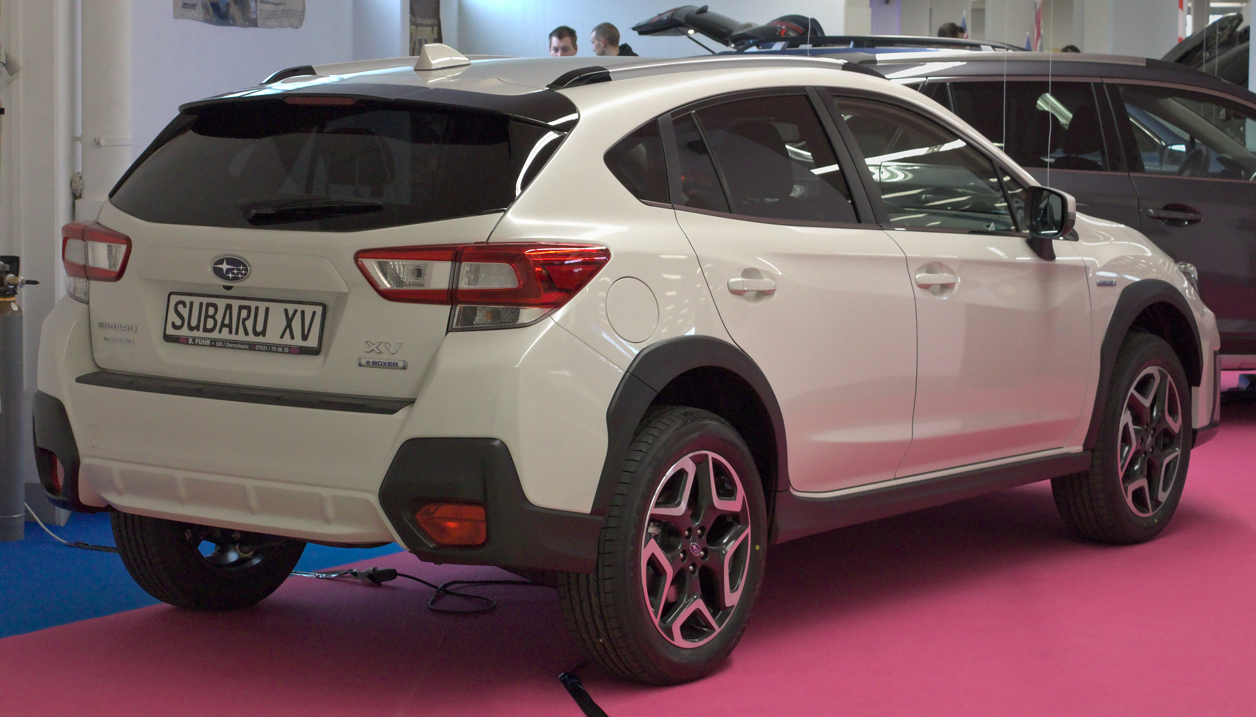 Subaru_XV_(GT)_e-BOXER_Sindelfingen_2020